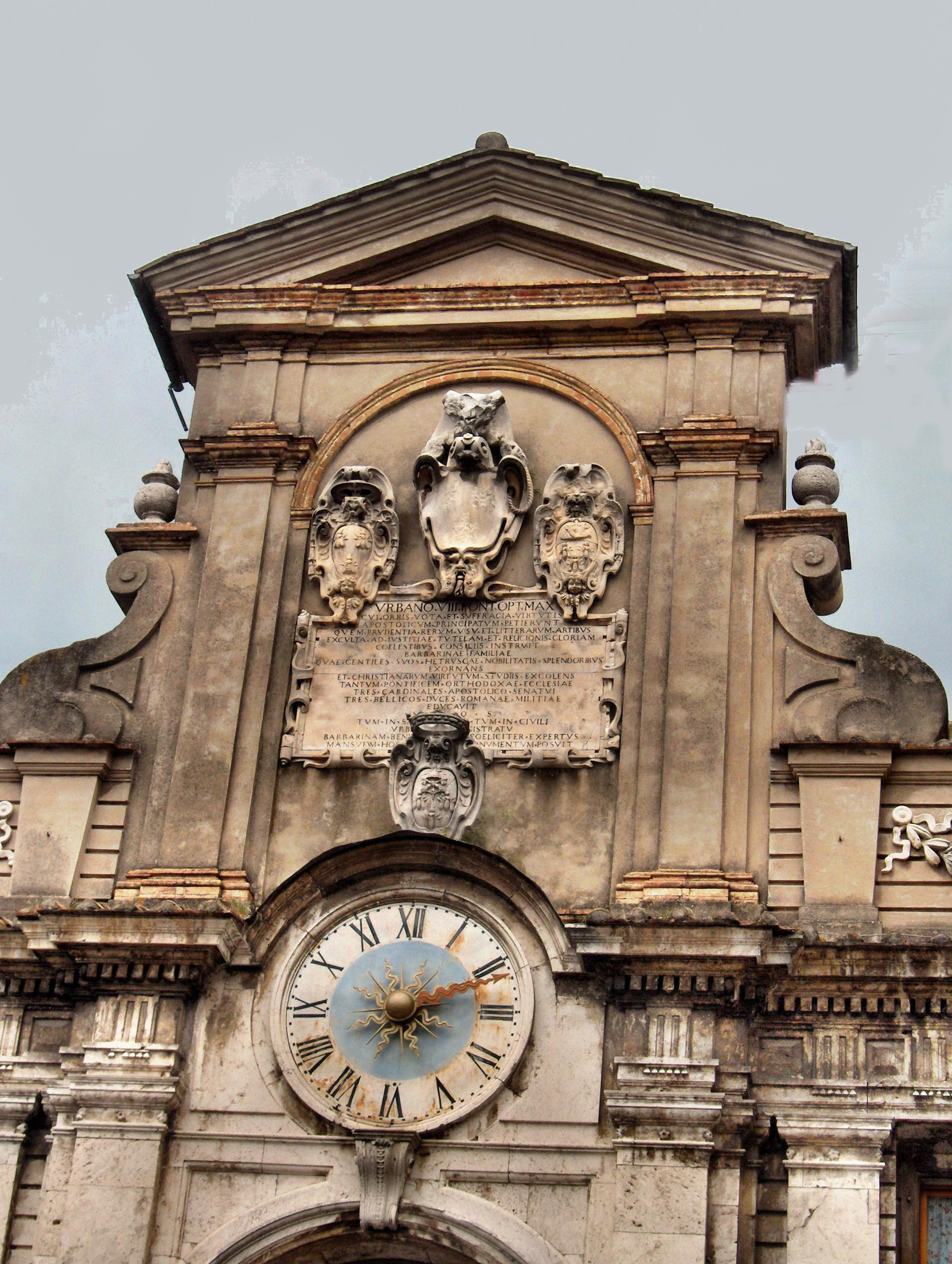 The Fonte di Piazza (1748) on the Market Square, Spoleto, Italy